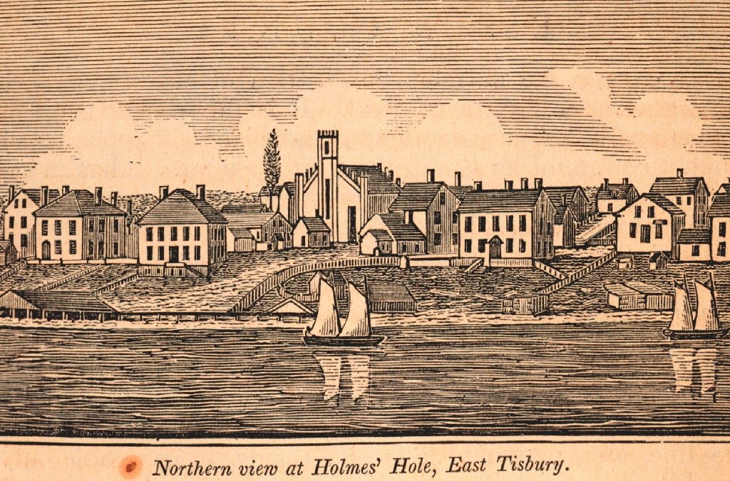 A view of Holmes' Hole, East Tisbury, on Martha's Vineyard, looking west from Holmes Hole Harbor. At center is the Baptist Church on Main Street, which burned down in the great fire of 1883. In: Historical Collections ... of Every Town in Massachusetts. 1841.